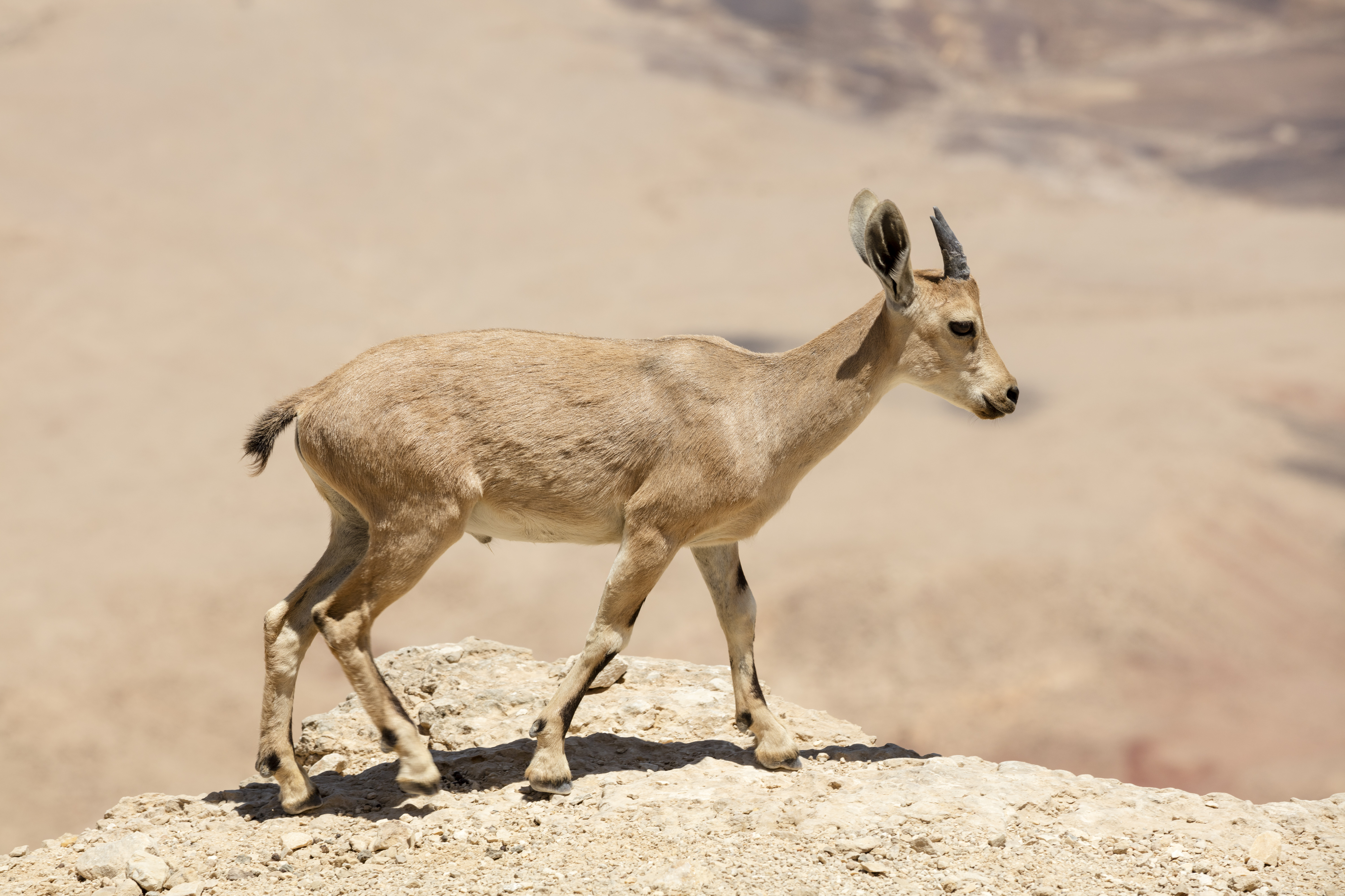 Makhtesh Ramon (Ramon crater), located in Israel’s Negev desert, is a 40 km long crater that varies between 2 and 10 km wide, and up to 500 meters deep. Unlike typical impact or volcanic craters, a makhtesh is created by erosion and may be unique to the Negev/Sinai region. Makhtesh Ramon is the largest of the five in the Negev.